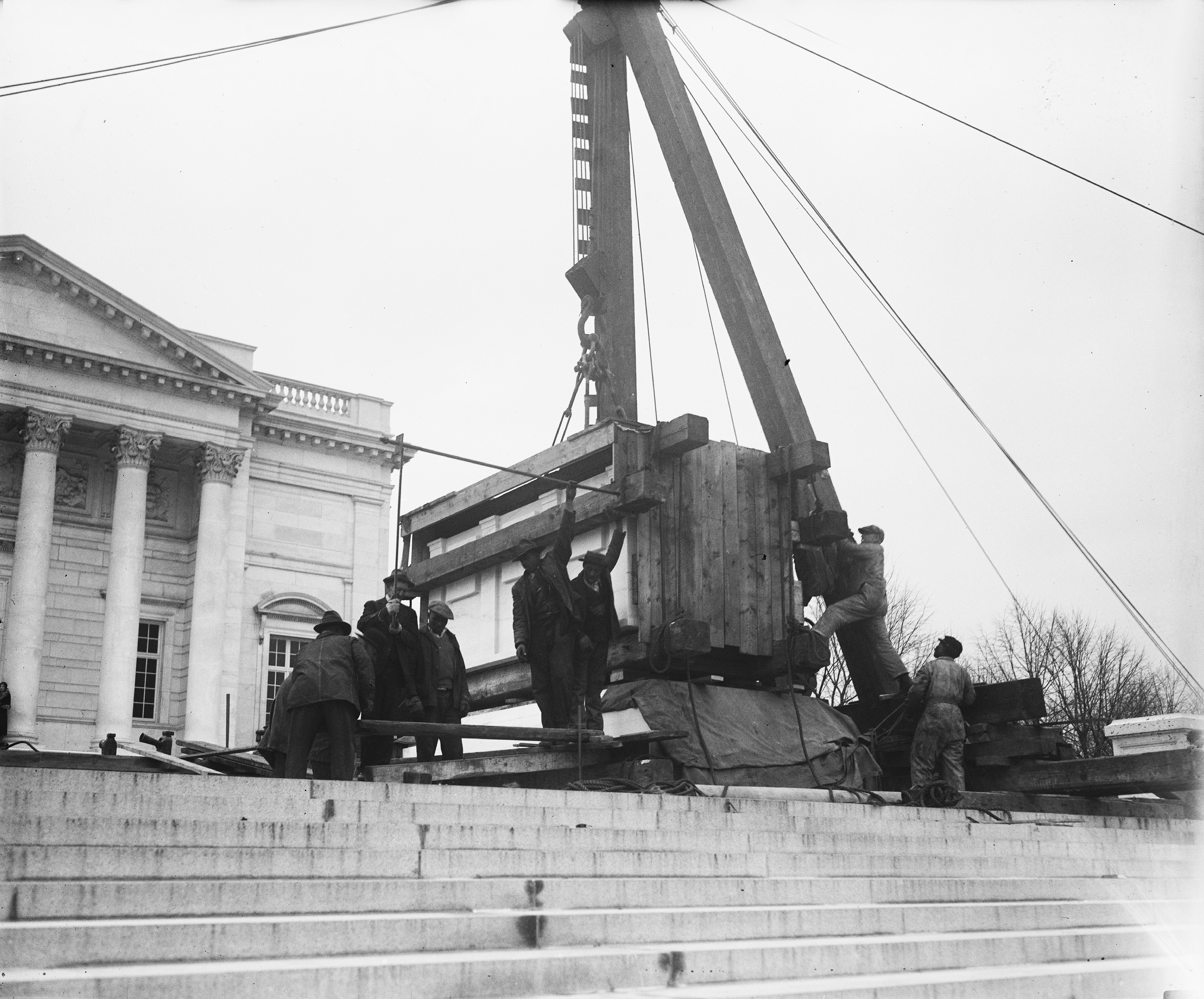 Placing the partially finished marble block that will constitute the expanded Tomb of the Unknown Soldier in Arlington National Cemetery in Arlington County, Virginia, in the United States. Image was taken in 1931. Memorial Amphitheater can be seen in the background. As constructed in 1920, Memorial Amphitheater ended in a small plaza atop a retaining wall, with a granite balustrade on the edge. The following year, the Tomb of the Unknown Soldier was added to this plaza. But the tomb was originally just a flat marble slab awaiting an appropriate monument. In 1926, Congress authorized the construction of a larger tomb cenotaph. Design work on and quarrying of this marble block took several years. The block was emplaced in 1931. The marble block was only partially sculpted off-site. Sculpting of the bas-relief figures was done on-site by the Piccirilli Brothers firm under the direction of the sculptor Thomas Jones. As can be seen in this photograph, only the pilasters on the corners have been sculpted so far.